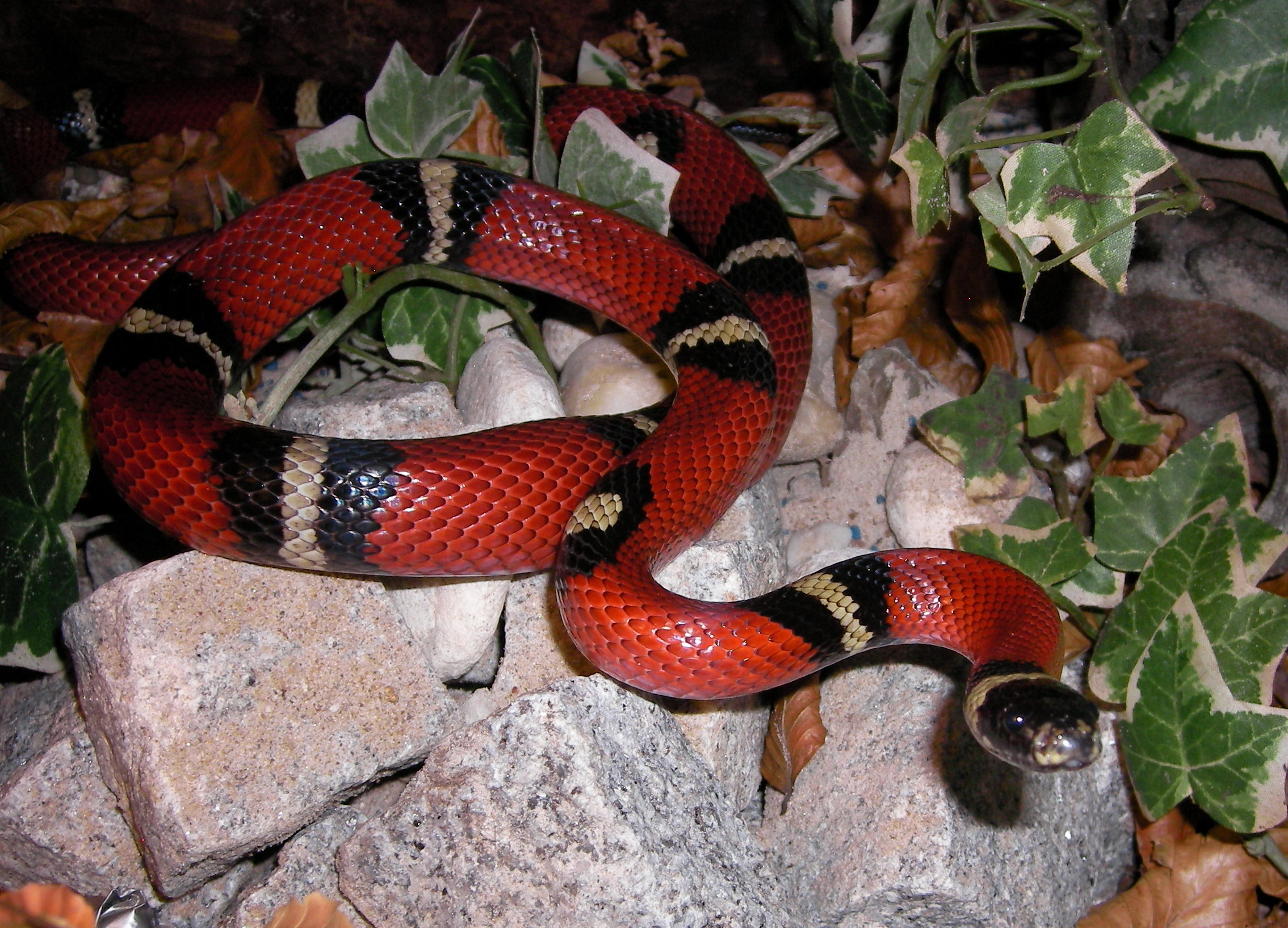 Sinaloan milk snake (Lampropeltis triangulum sinaloae)